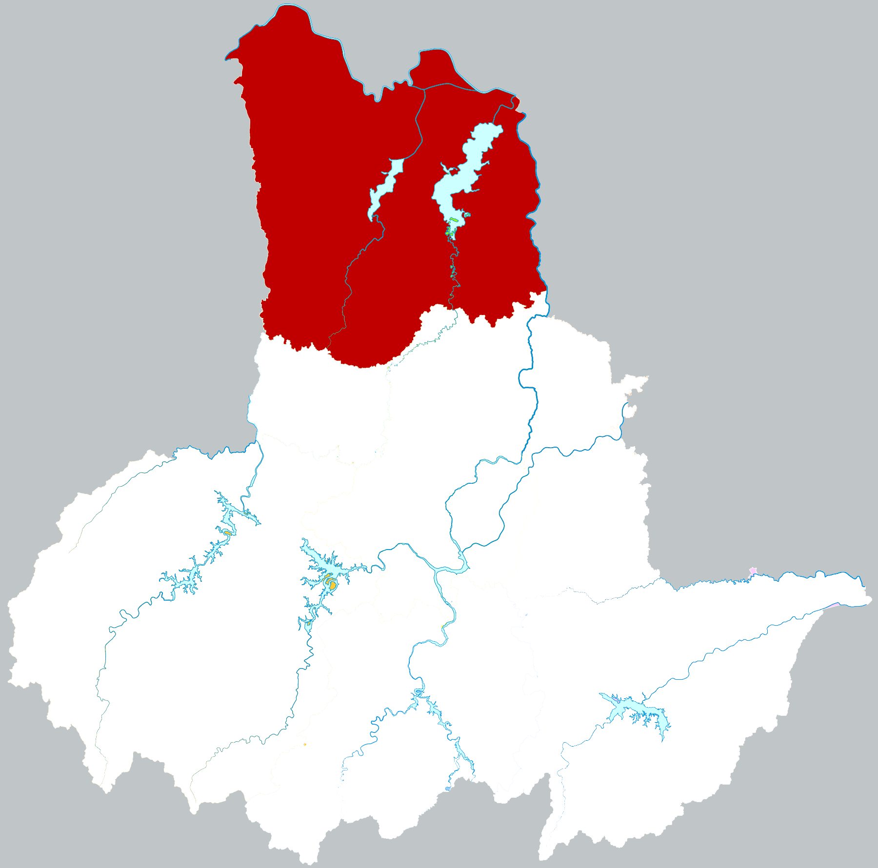 Location of Huoqiu county in Lu'an city, China